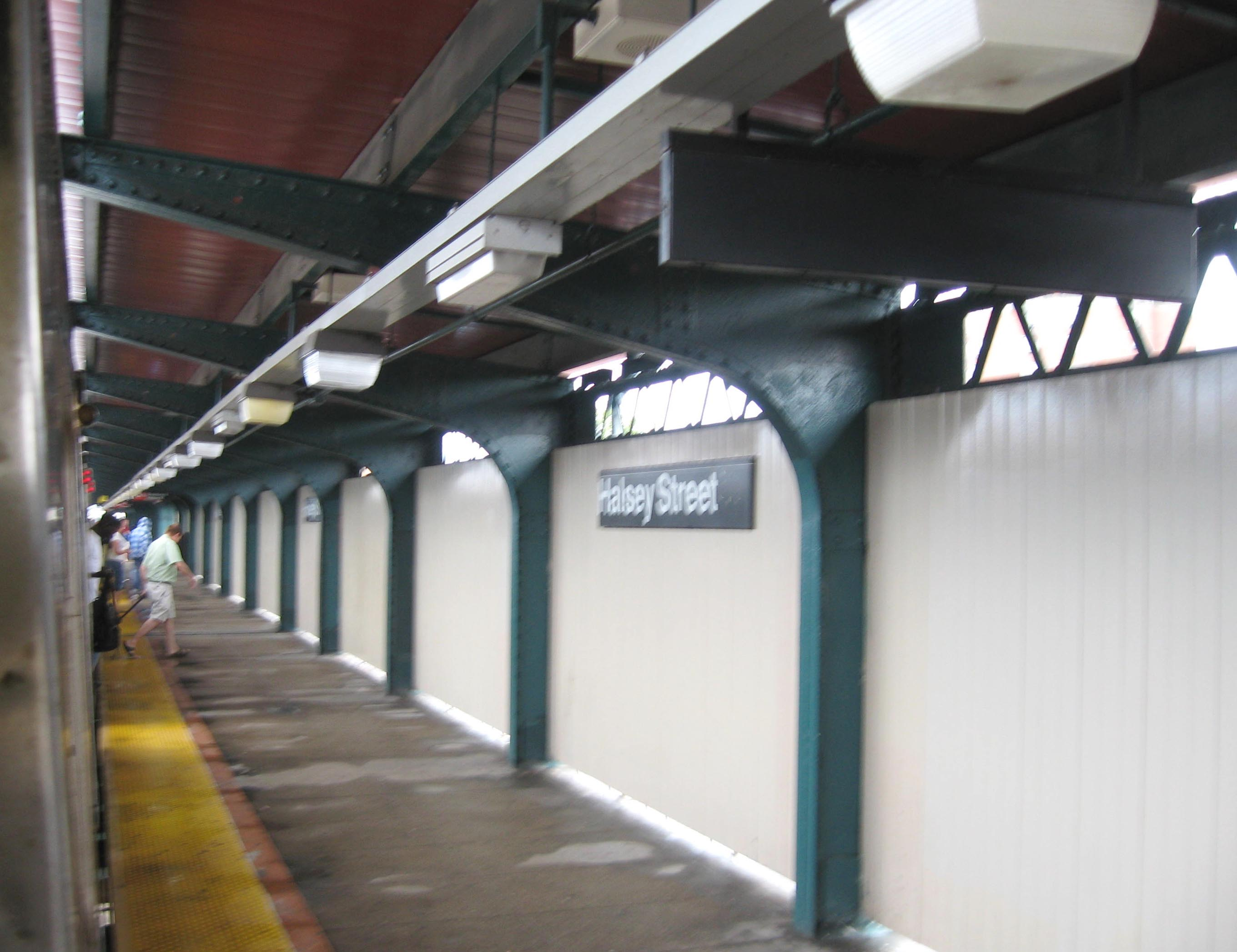 Looking south on (railroad) north bound platform of Halsey Street (BMT Jamaica Line) on a rainy midday.